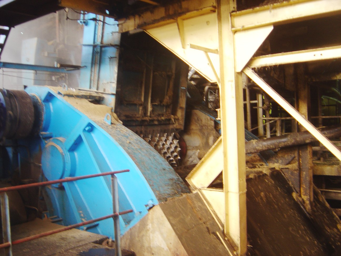 Sugar cane grinder